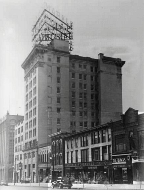 Markle Bank Building (now Hayden Tower at the Markle) in Hazelton, Pennsylvania, 1910.